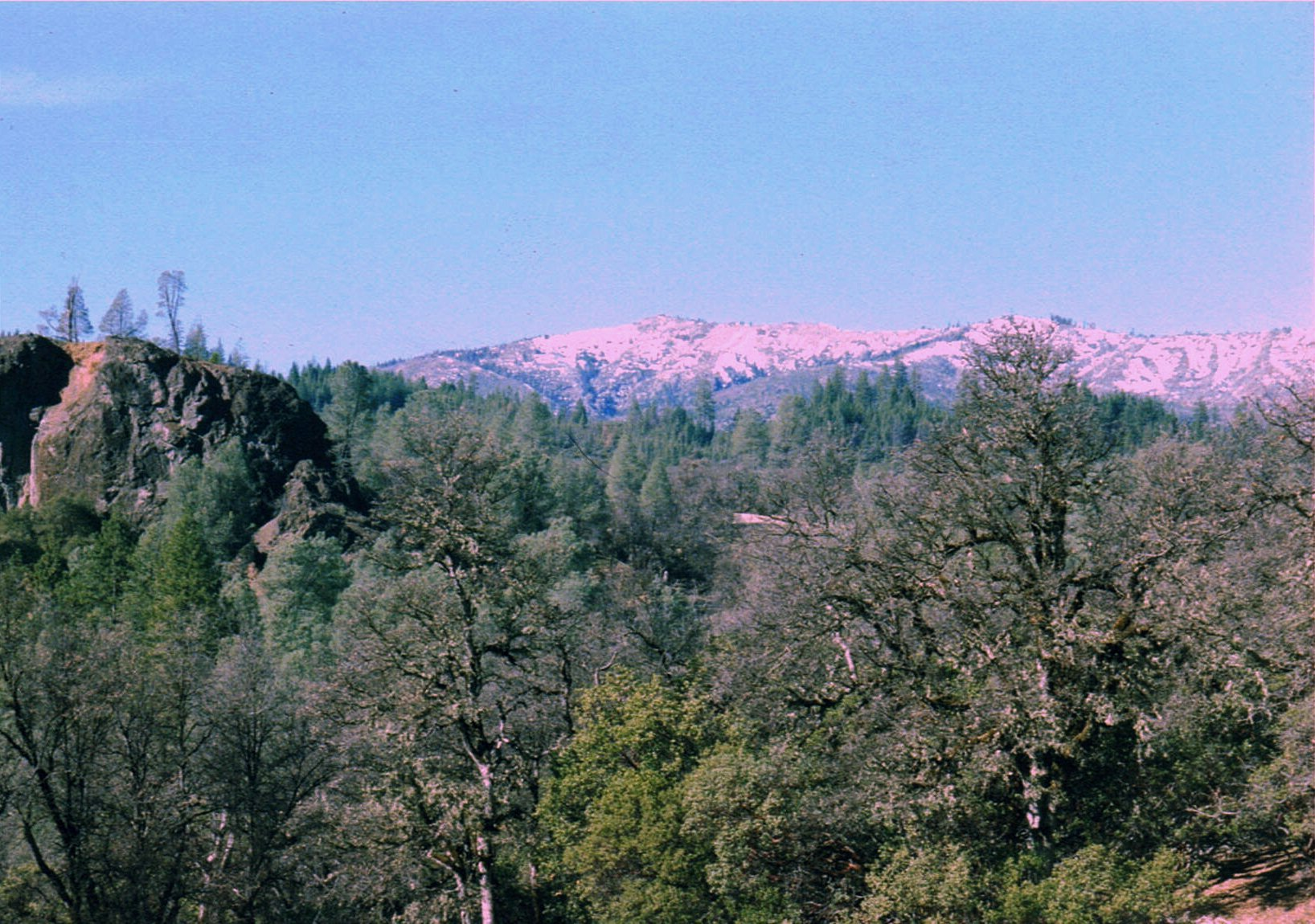 Sanhedrin Mountains in the Mendocino Range with California mixed evergreen forest habitat. Located in Mendocino National Forest of Northern California.